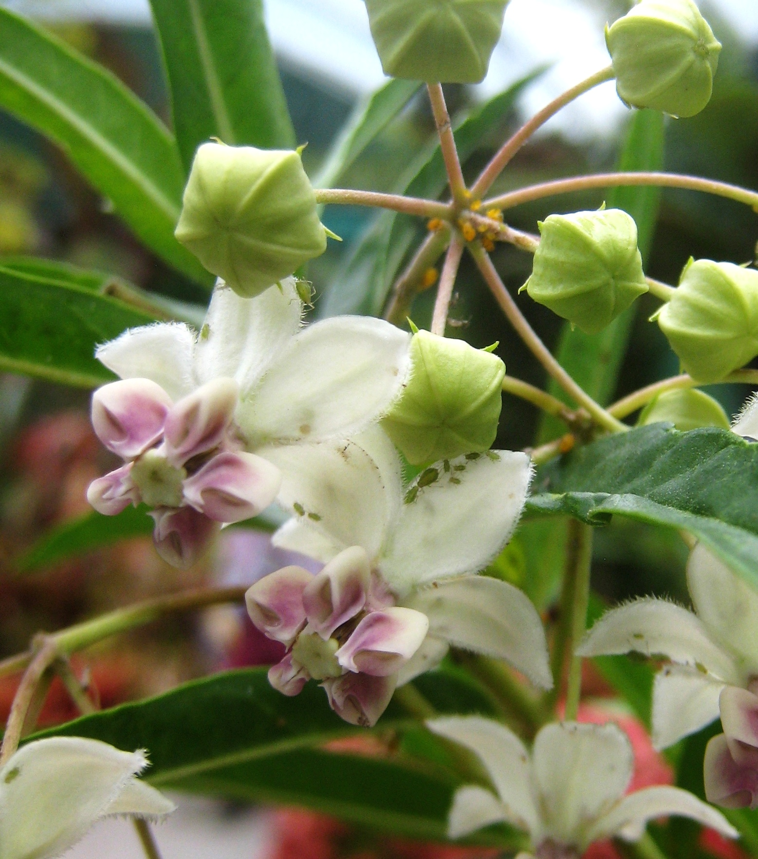 Swan plant's flowers and buds